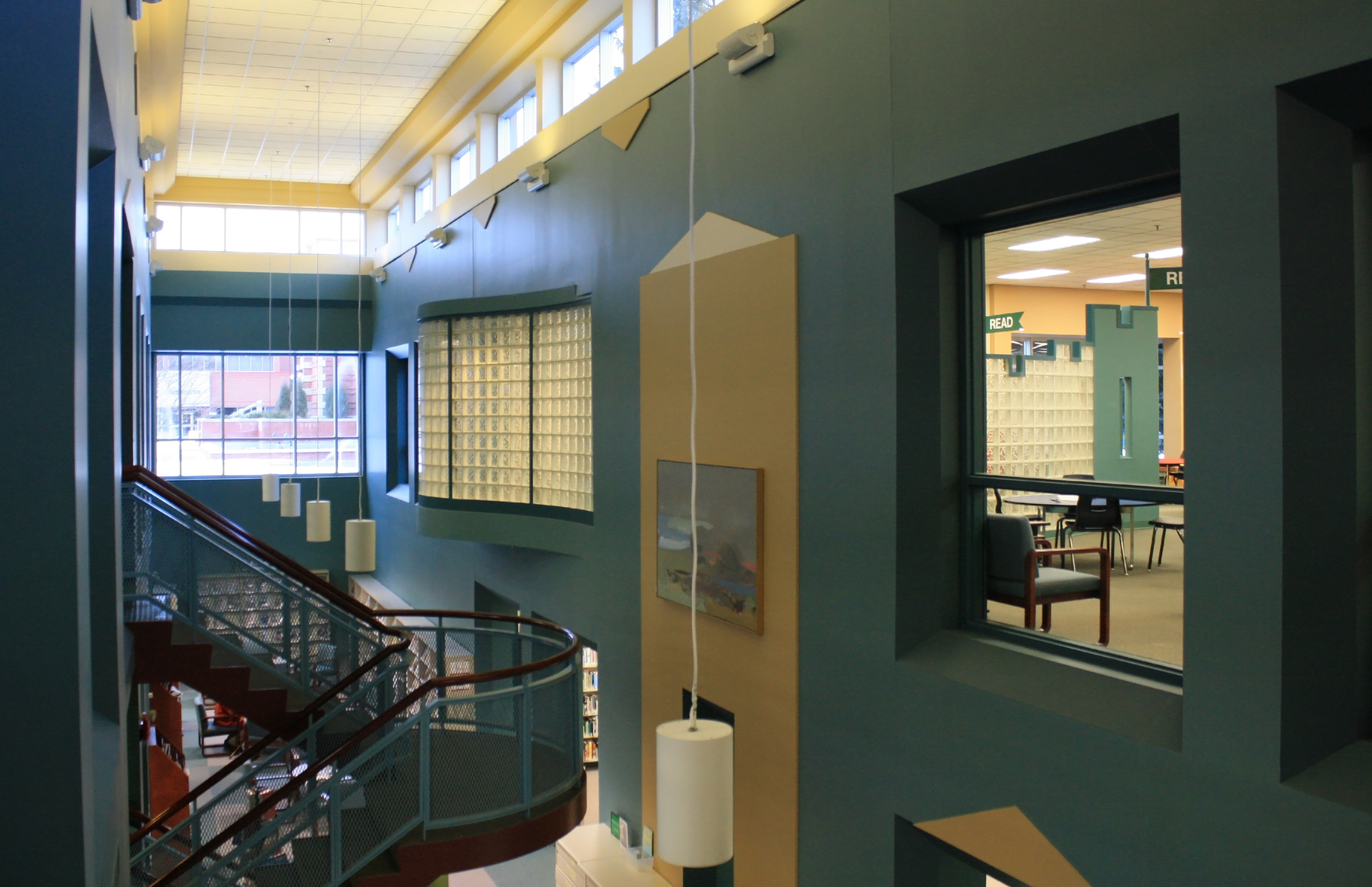 The atrium of the Medicine Hat Public Library